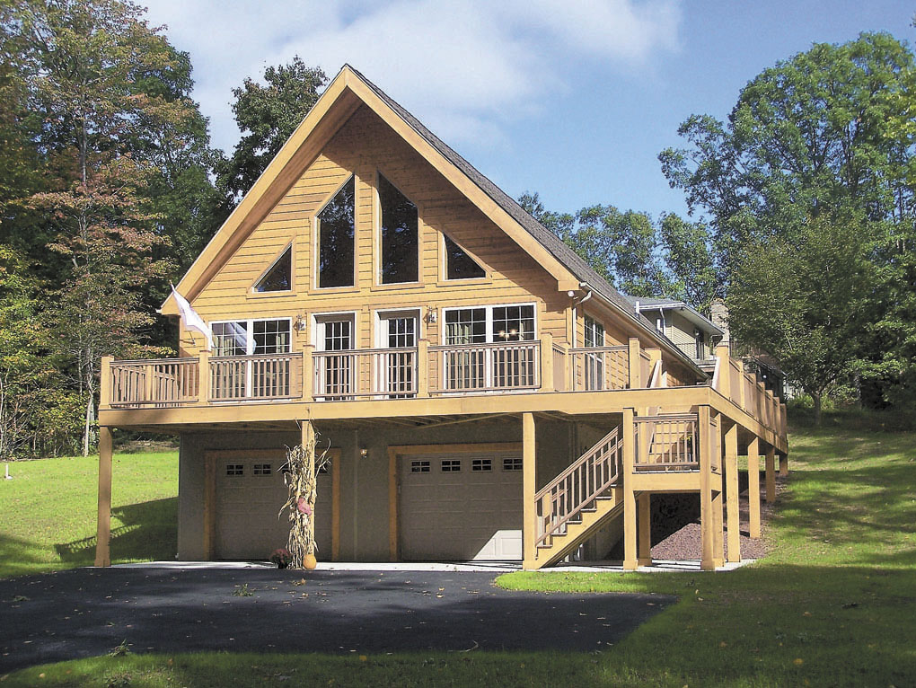 Exterior of a modern modular home with cedar option